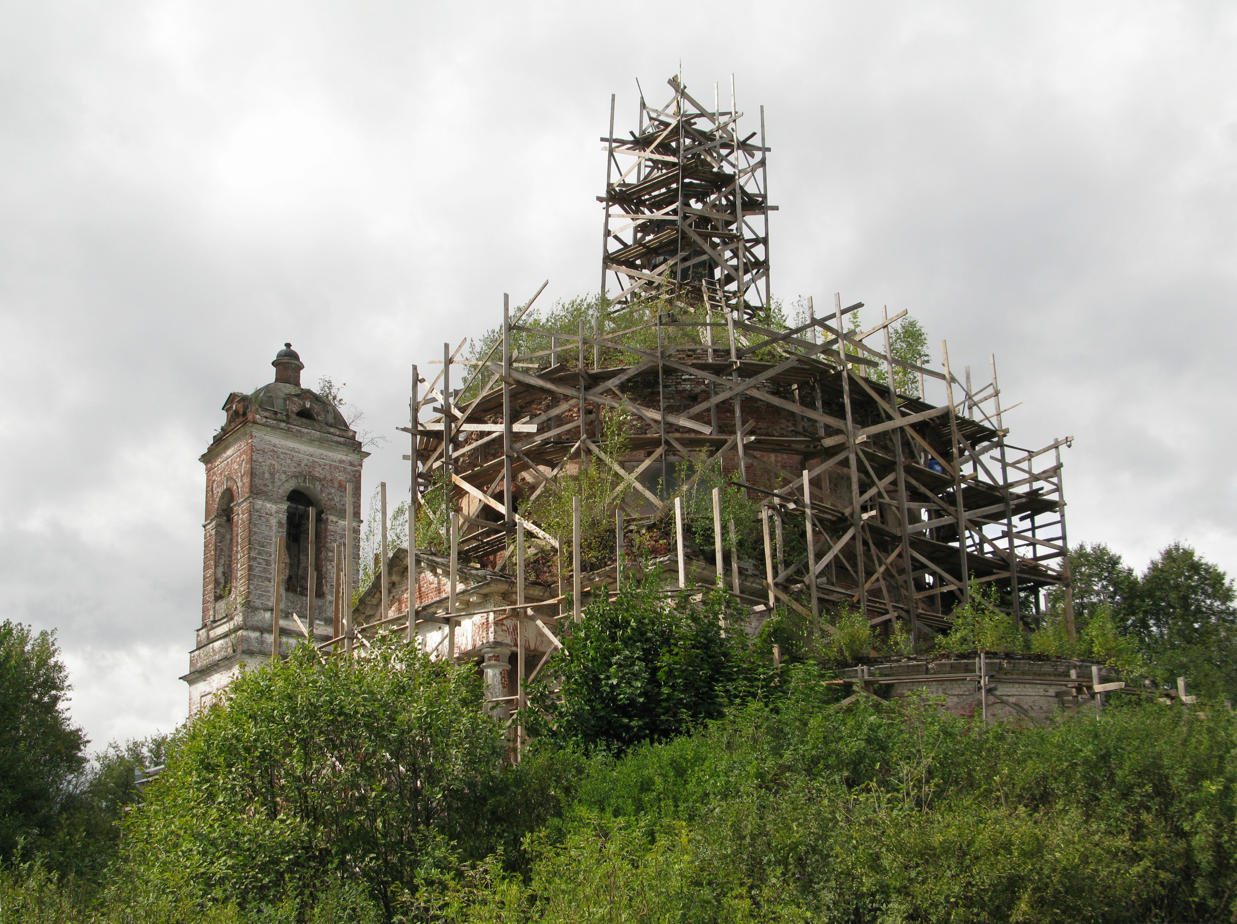 Archangel Michael church, Arkhangelsky pogost, Kirzhach district Vladimiar oblast, Russia